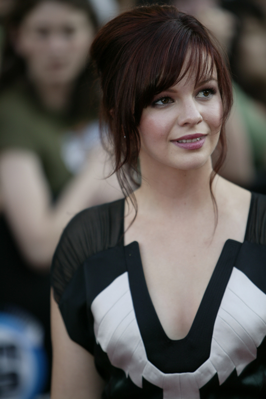 Amber Tamblyn at the 2007 MuchMusic Video Awards red carpet.